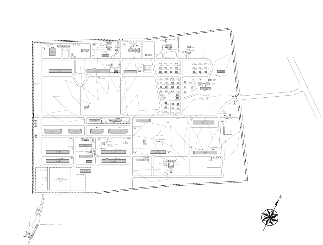 Cp Fuchinobe, Sagamihara, Japan (1969)